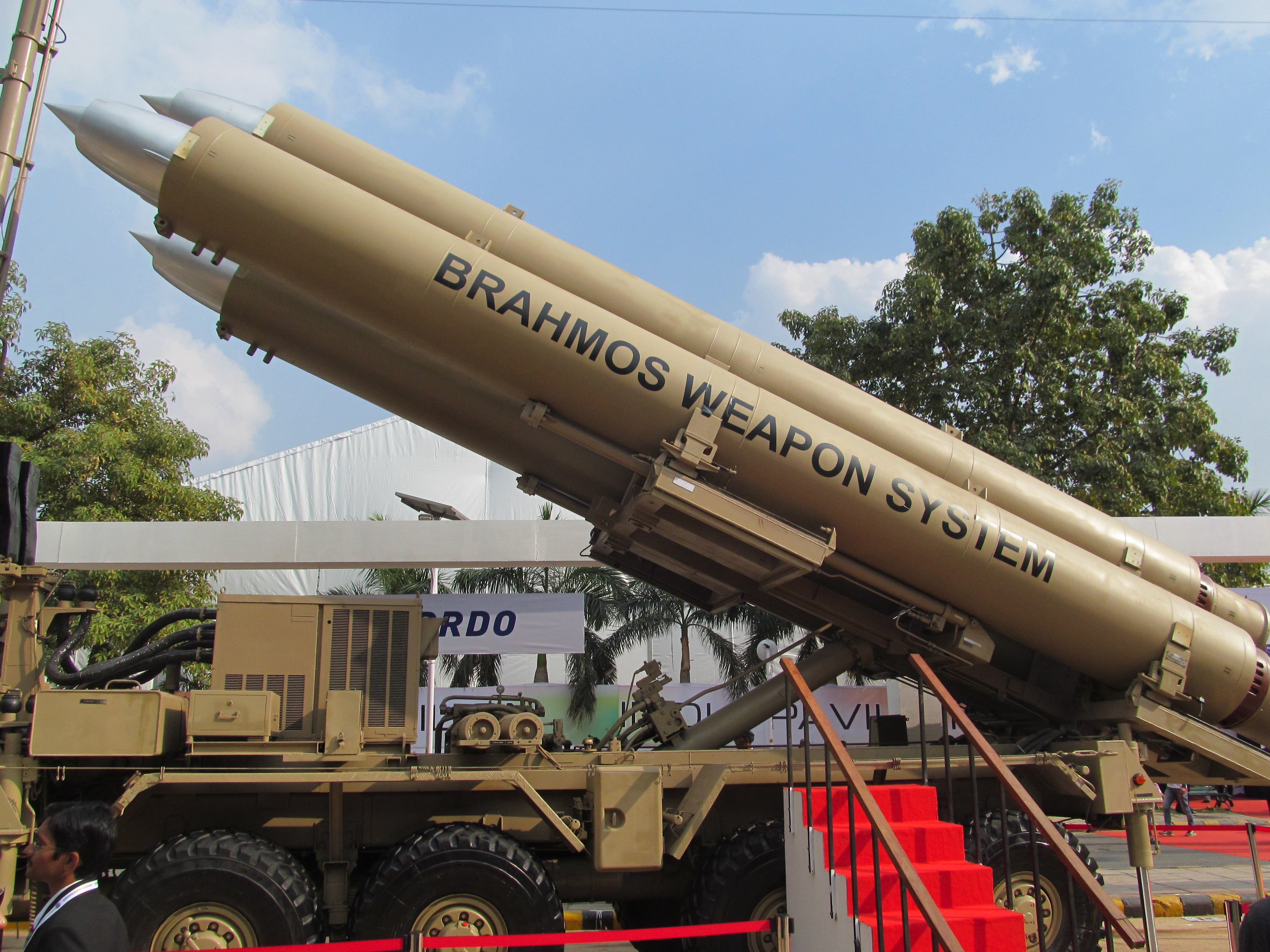 Indian Army's BrahMos Mobile Autonomous Launchers (MAL)